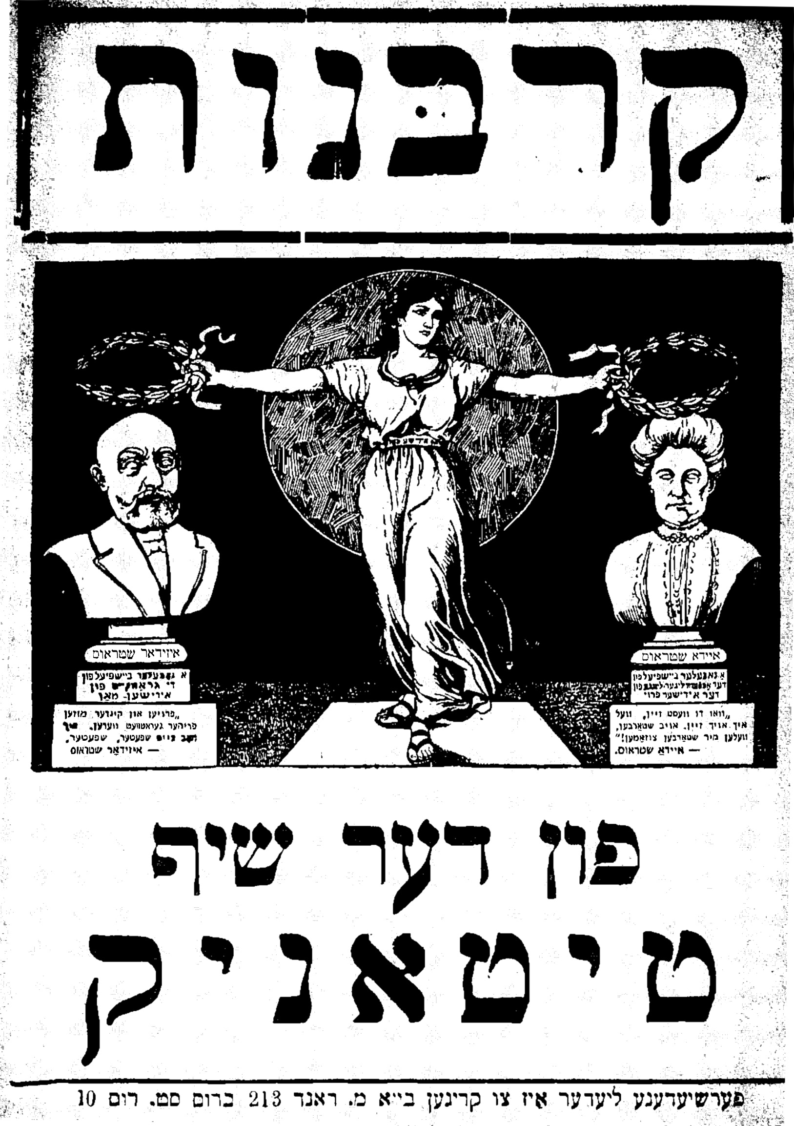 From a "Yiddish Penny Song": an angel blessing busts of Isidor and Ida Strauss